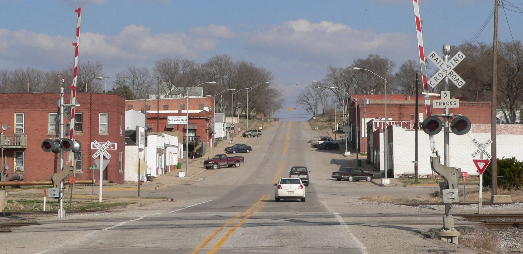 Downtown Union, Nebraska: Main Street (U.S. Highway 34), seen from the west.